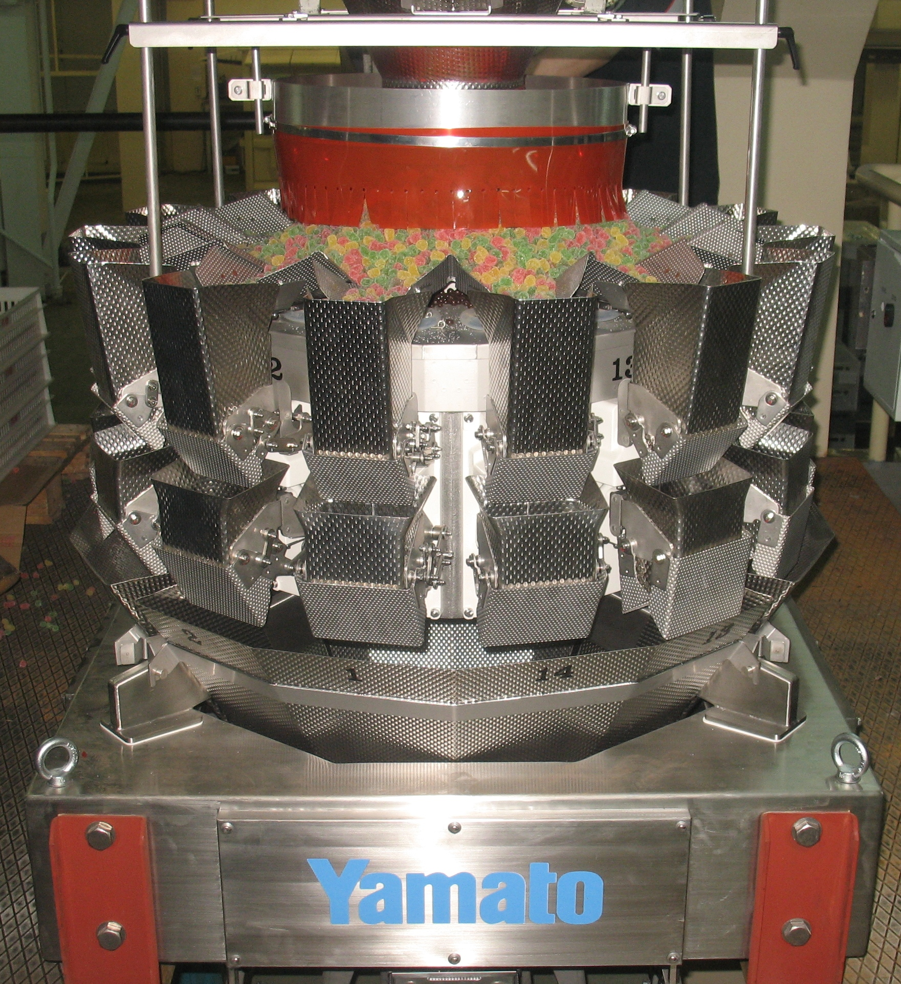 Yamato Multihead weigher